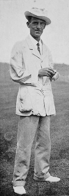 Walter J. Travis in 1904 as the first joint holder of the British and American Amateur Championship